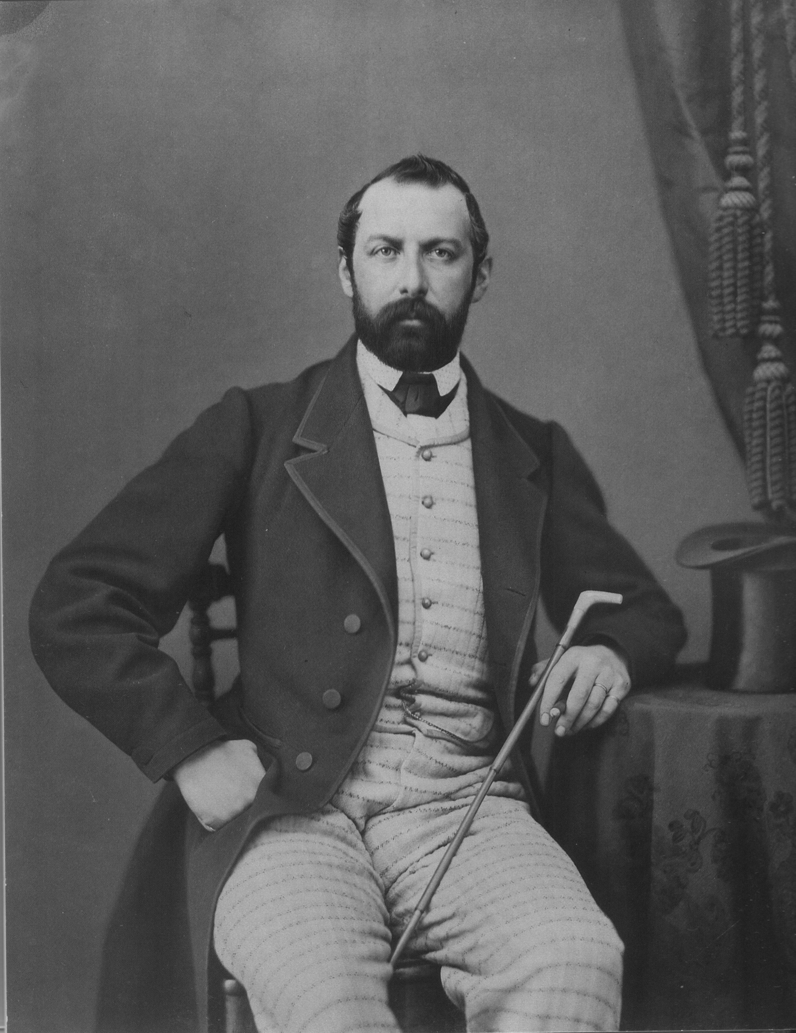 Charles XV photographed by Mathias Hansen around 1865